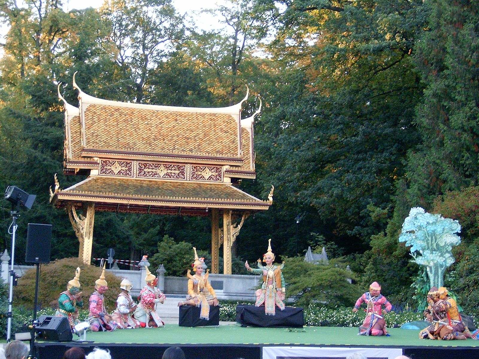 Khon Dance in front of Thai Sala, Bad Homburg/Germany